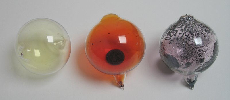 From left to right: chlorine, bromine, iodine. Fluorine is too corrosive to be included in the picture, and astatine is too radioactive.